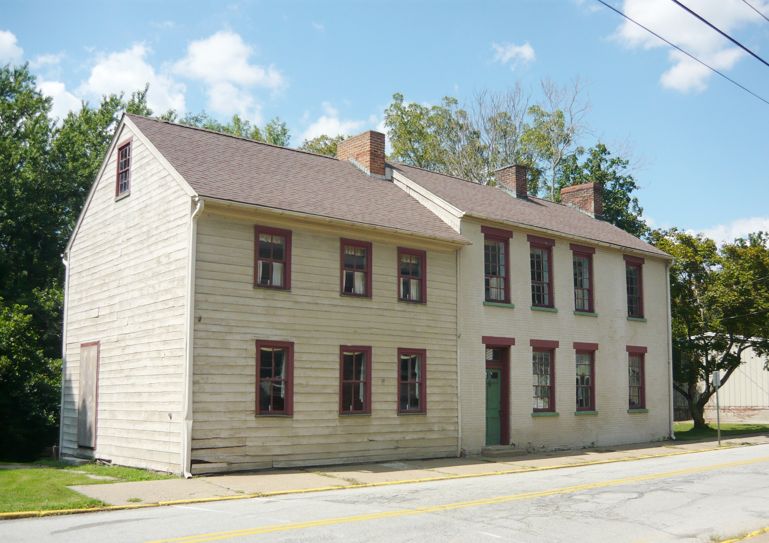 Plumer House, 131 South Water Street (at Vine Street), West Newton, Westmoreland County, Pennsylvania. Built in 1814 with 1846 addition, both by the house's original owner, John Plumer.